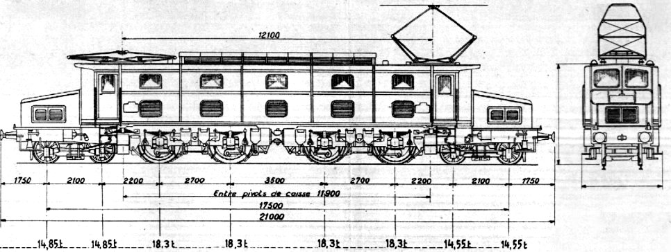 Drawing of electric prototype PLM 242 AE 1, 1928, future SNCF 2BB2 3201.